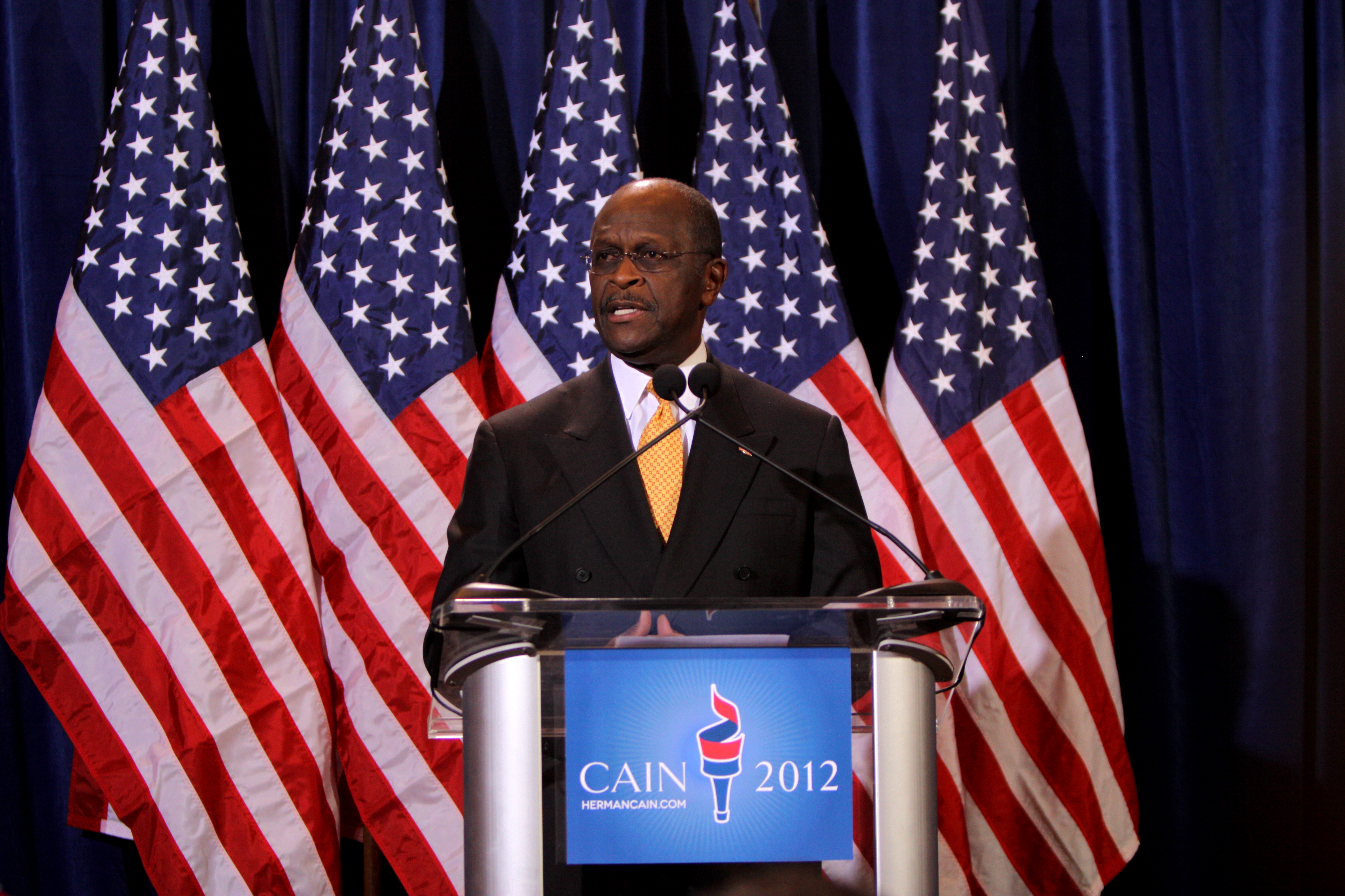 Herman Cain speaking at a press conference in Scottsdale, Arizona on November 8, 2011, addressing accusations of sexual harassment.